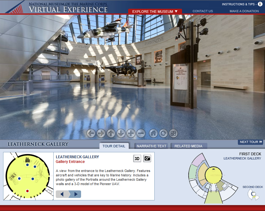 The National Museum of the Marine Corps launched an interactive website on June 23, 2010. While the general public can visit the museum in person from 9:00 a.m. to 5: 00 p.m., the virtual installation is accessible 24 hours a day, 365 days a year.